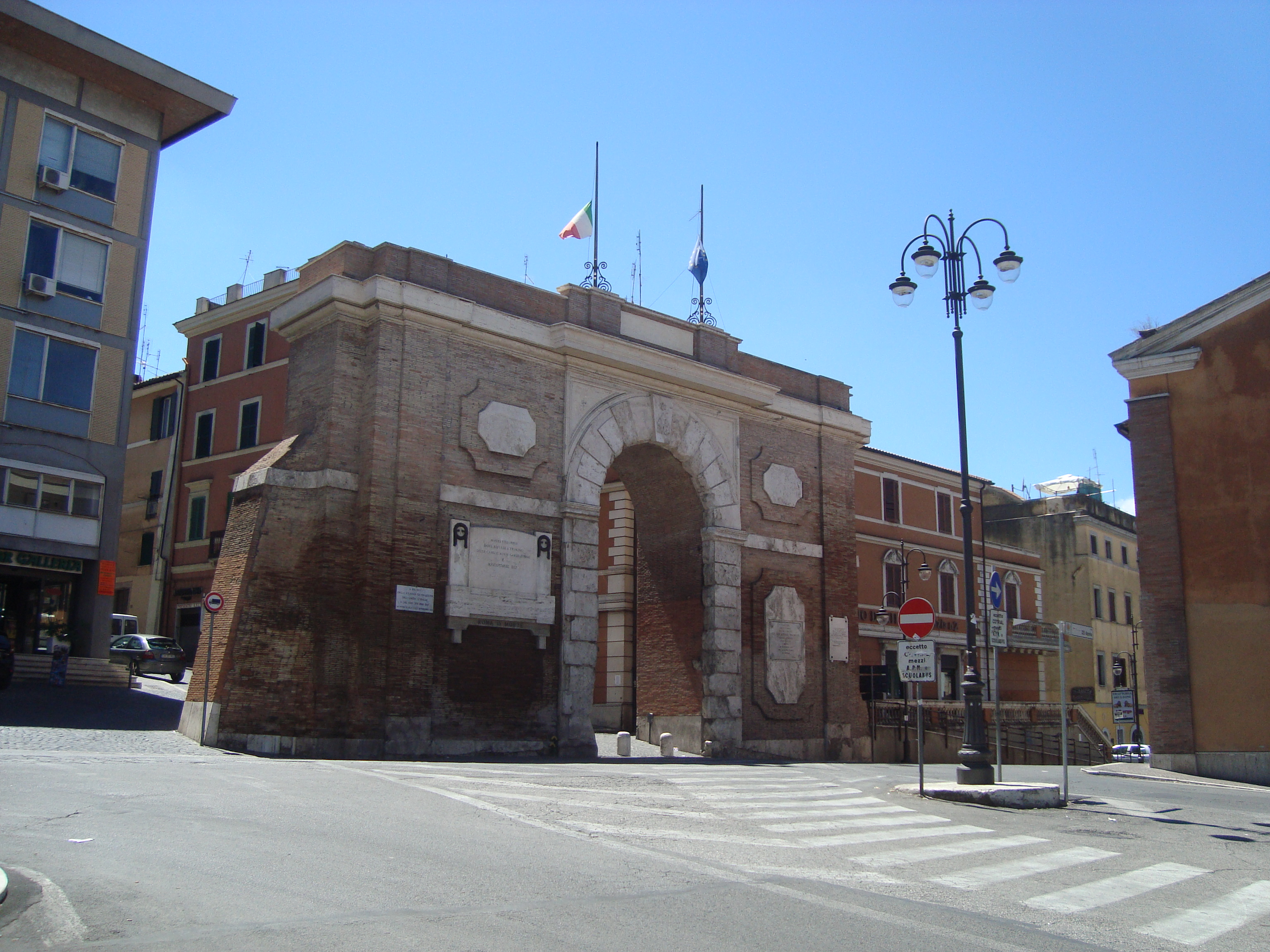 The porta Garibaldi in Monterotondo